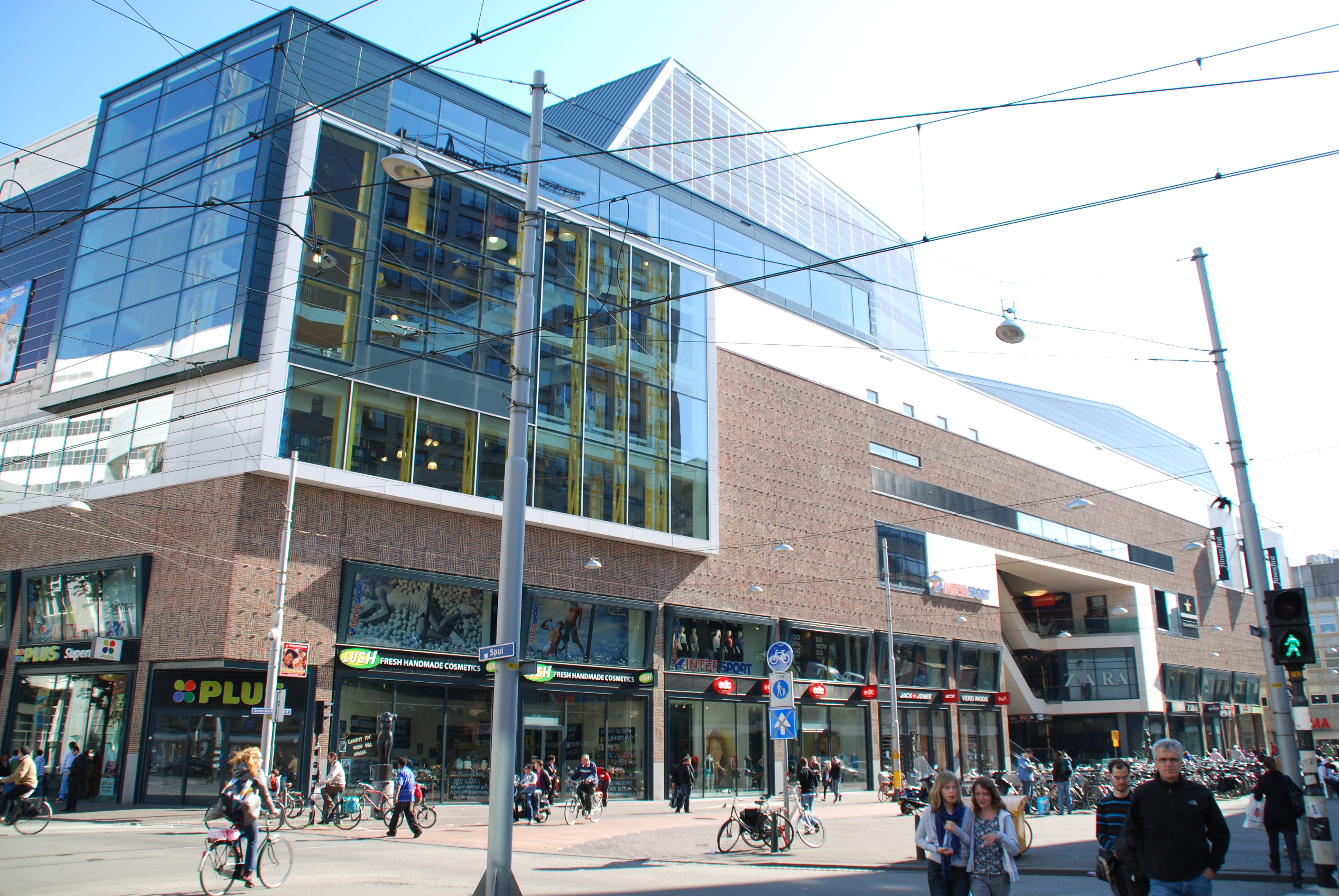 Spuimarkt, the Hague - the Netherlands